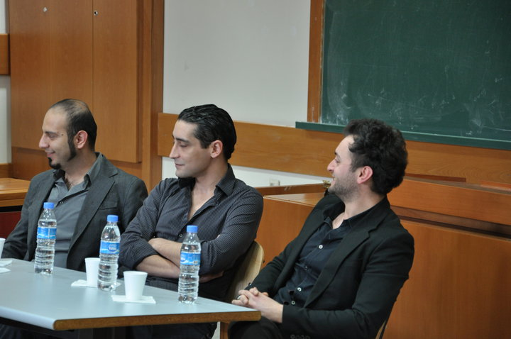 Zakkum which is a Turkish Glam Rock group in Middle East Technical University.